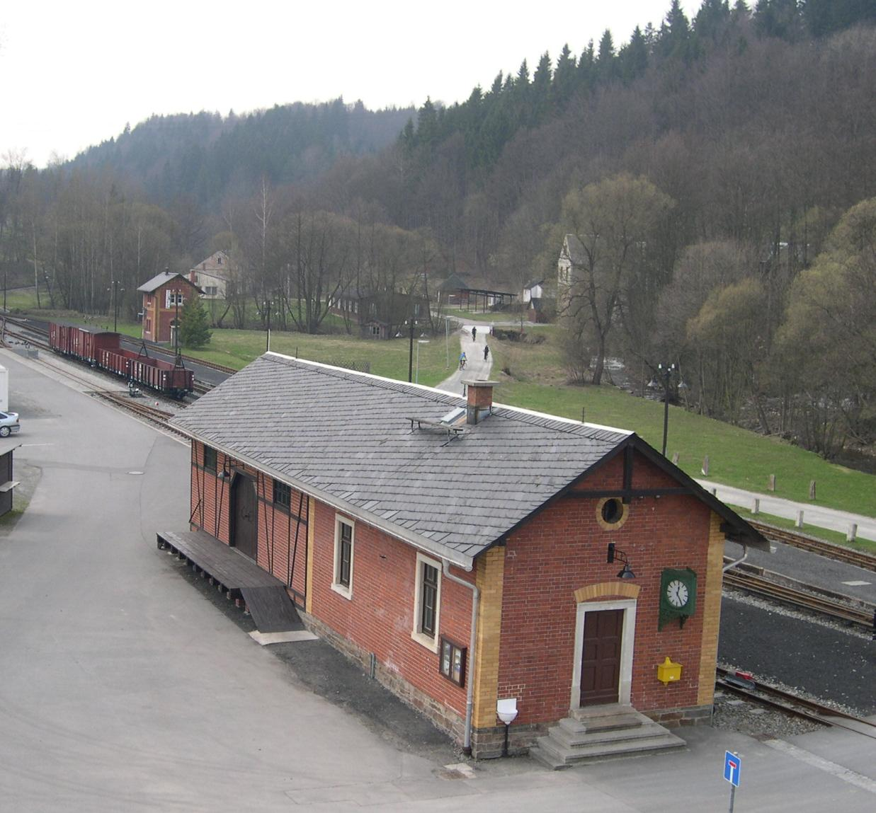 Pressnitztalbahn - Narrow gauge railway station Steinbach